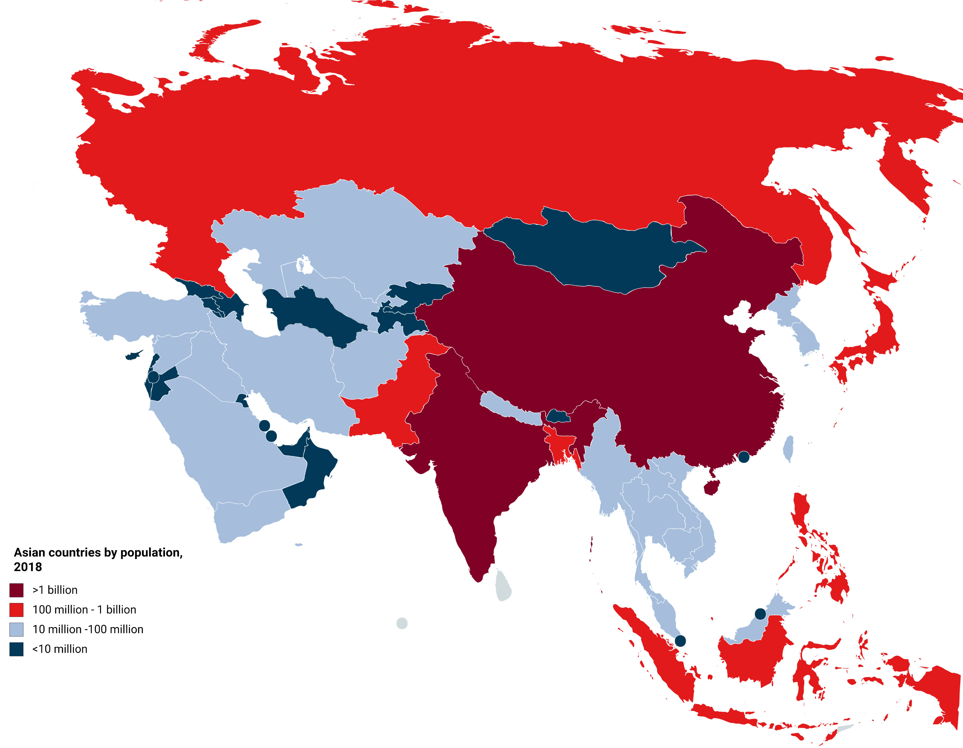 Asian countries by population, 2018